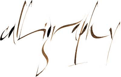 The word calligraphy written with fast spontaneous strokes by Denis Brown, 2006 as a simplified example of a 'polyrhythmic' approach to western writing. The unconventional letterspacing sacrifices some legibility in favour of a more musical form.